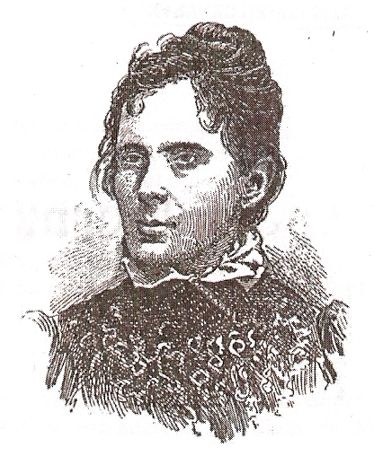 Sketch of Júlia Lopes de Almeida from the front matter of the first edition of Ância Eterna (1903). Artist uncertain.